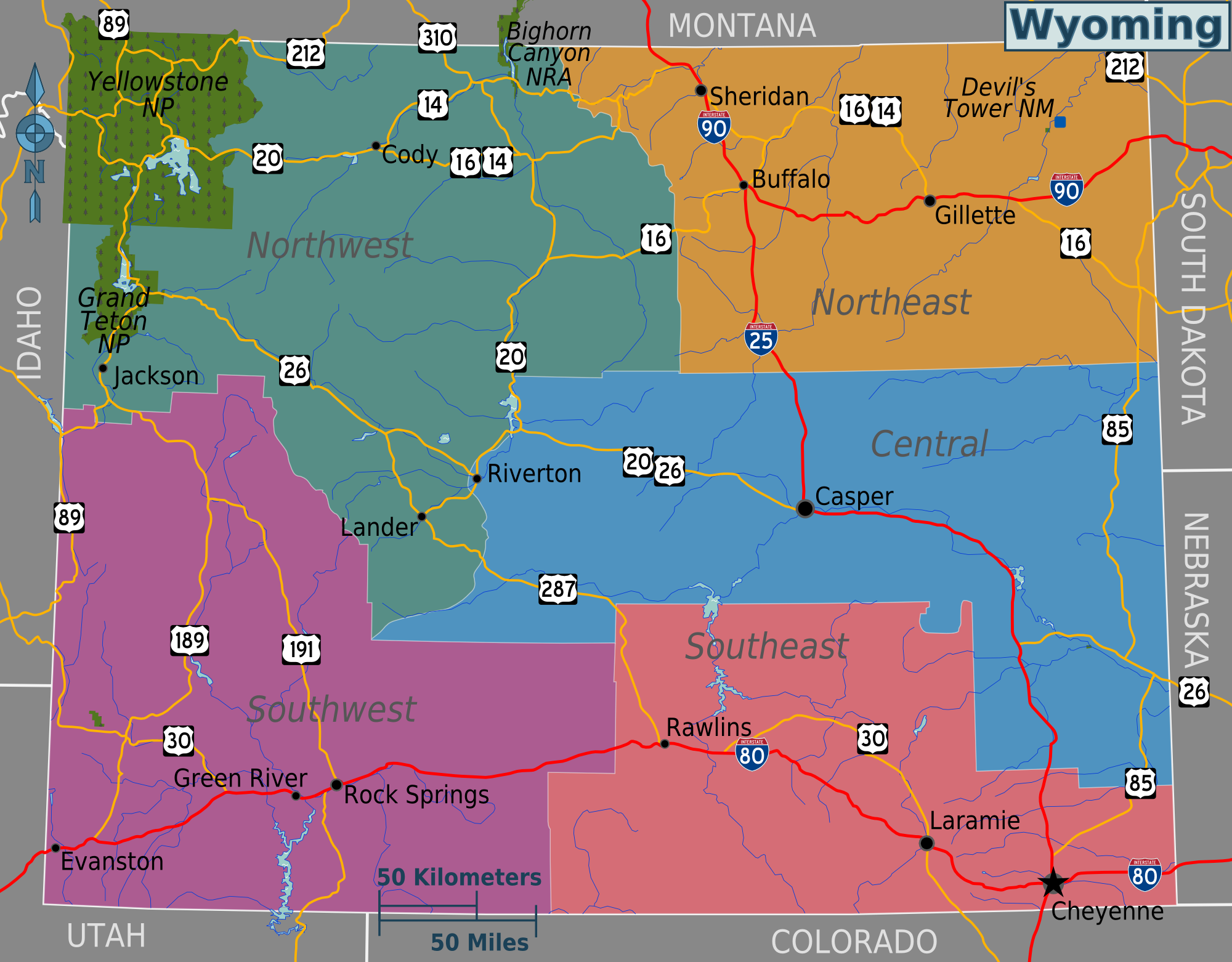 Wyoming regions map. English version, Wyoming Map of: Wyoming¤.